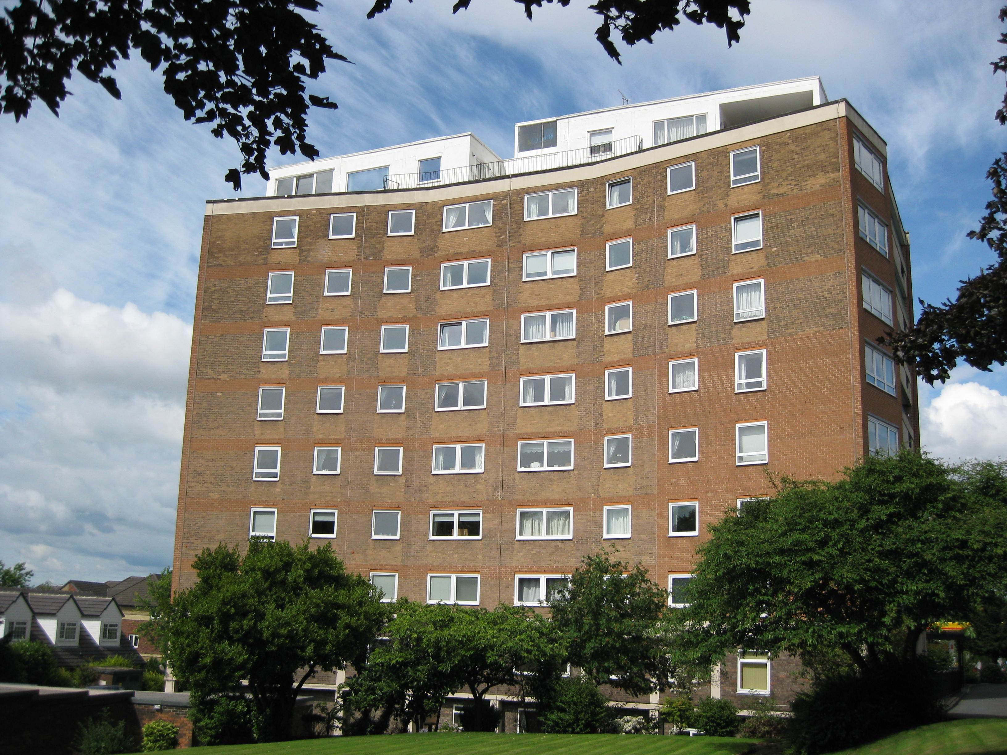 Sandmoor Court, 477 Harrogate Rd,Alwoodley, Leeds LS17 7JY